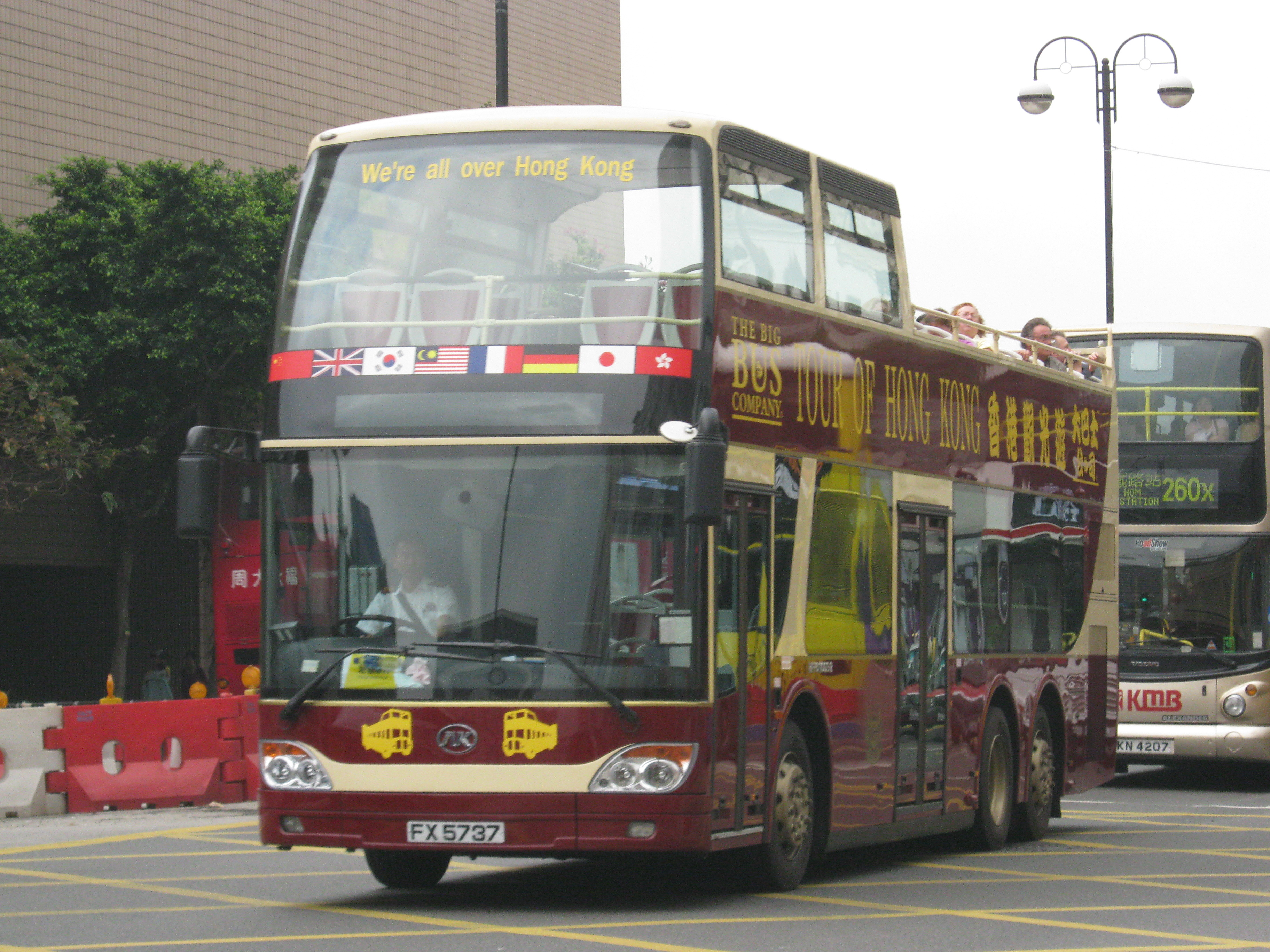 An open-top bus of The Big Bus Hong Kong running Kowloon route.